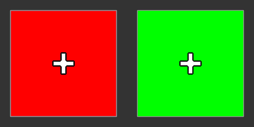 Impossible Colors, Red and Green